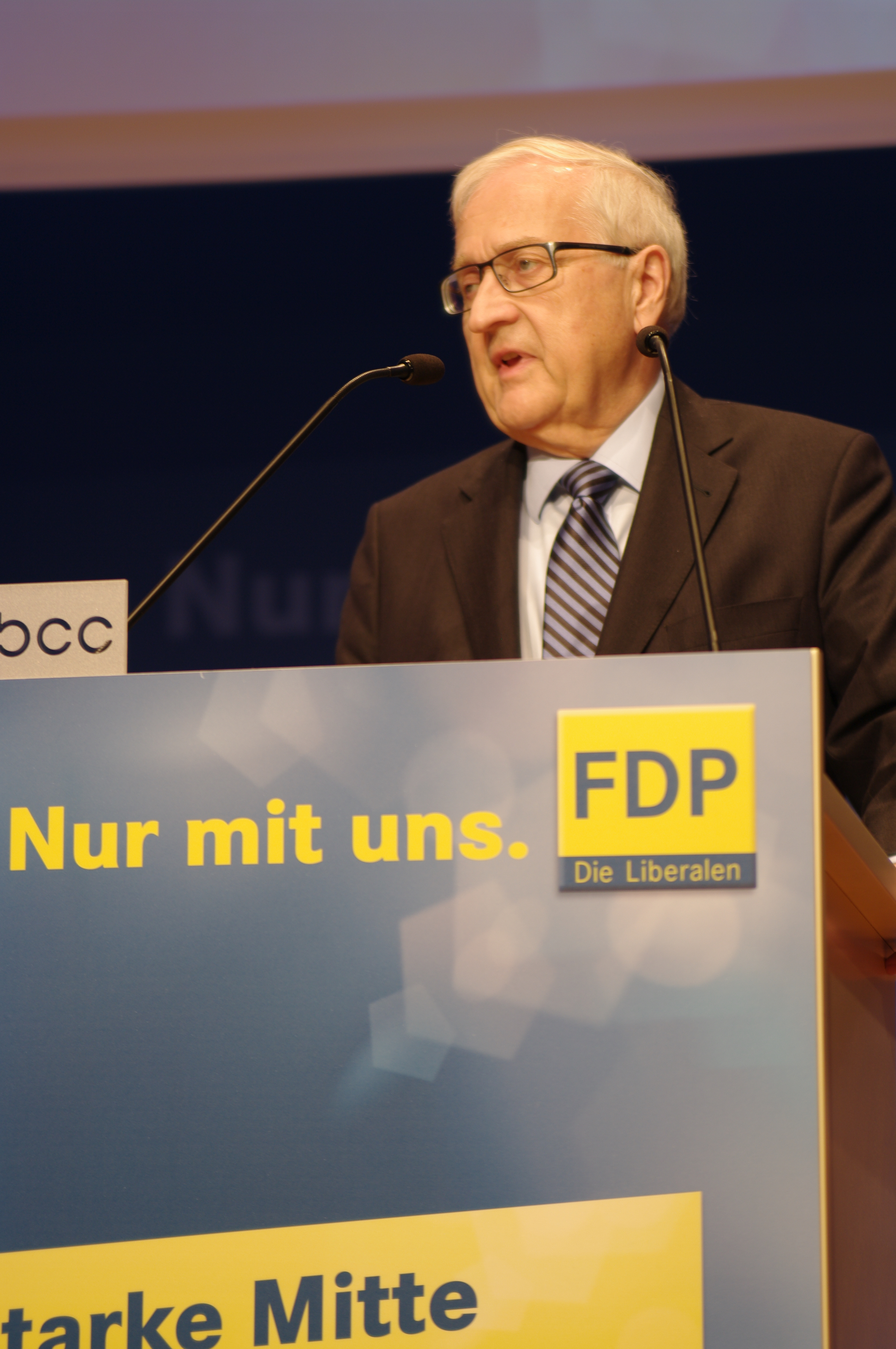 The federal election party FDP in Berlin Congress Center for the parliamentary election in 2013